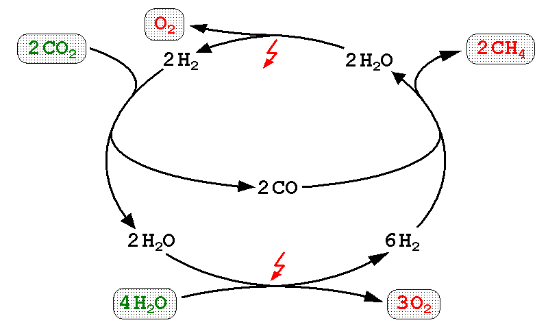 Methanation of carbon dioxide as a partially closed production circle